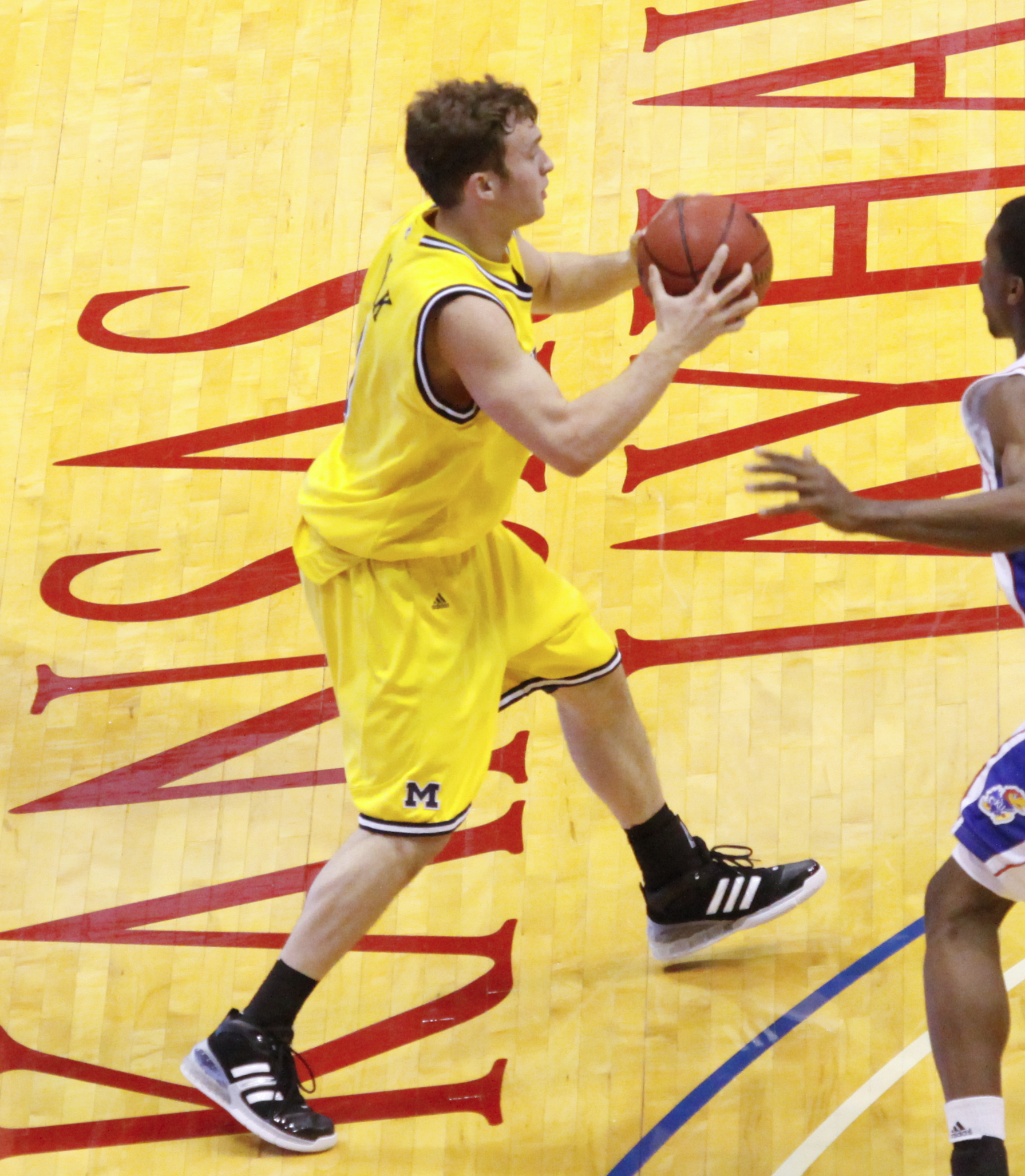 Zack Novak being defended by Thomas Robinson (basketball)